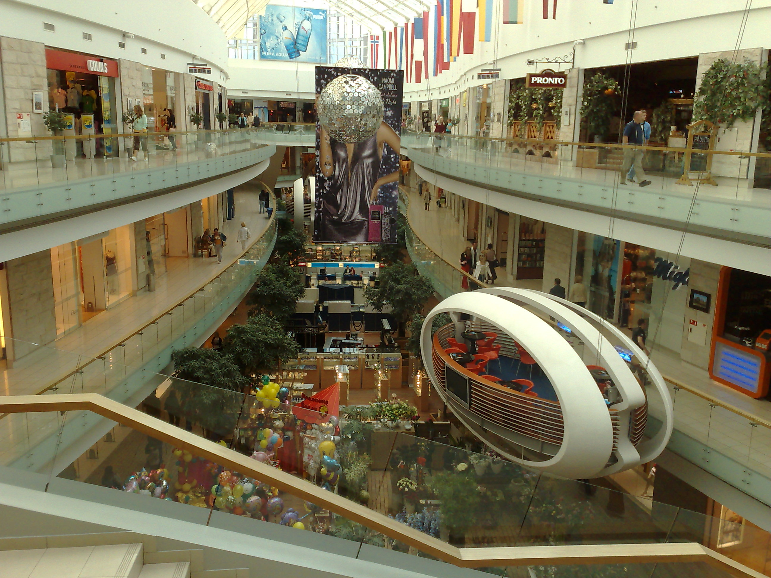 Interior of Europa shopping mall in Vilnius, Lithuania